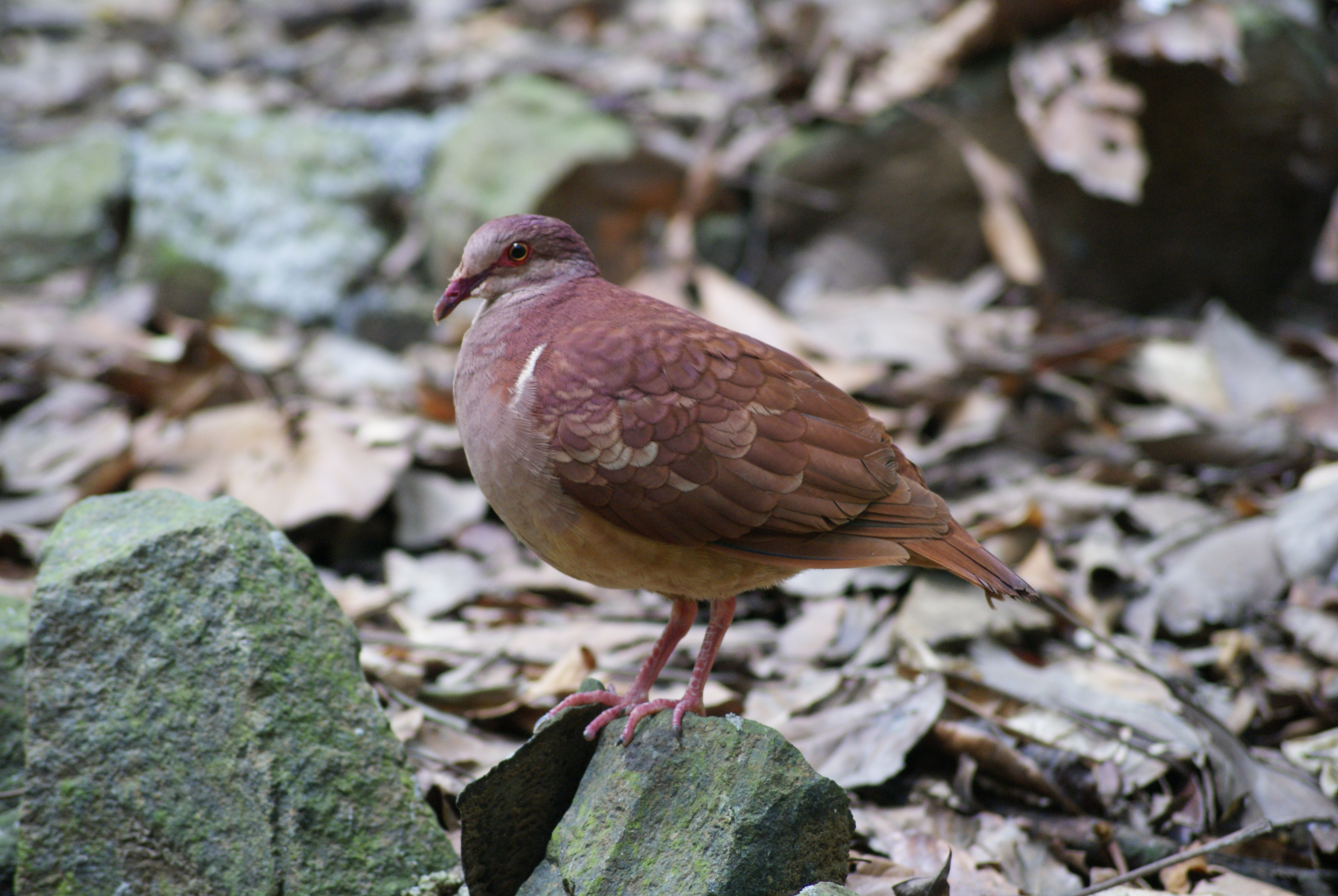 A Ruddy Quail-Dove (Geotrygon montana) in Parc des Mamelles zoo, Guadeloupe. Self-identified using a locally borrowed book called "Oiseaux des Antilles" (or something like that). Assuming I have not misunderstood the description in French, the coloration of the plumage indicates that it is a male individual.